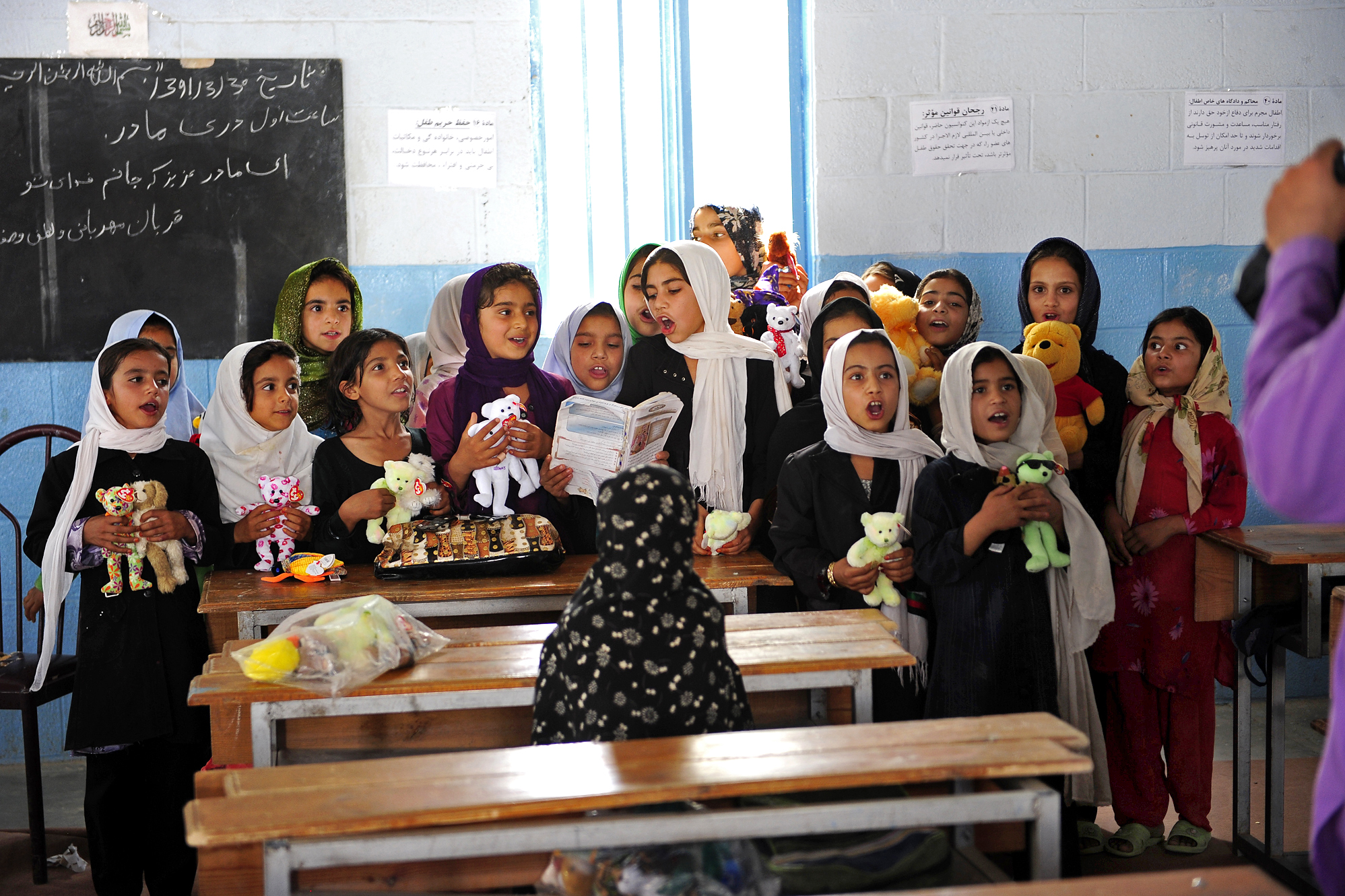 Afghan girls sing songs to U.S. service members during a visit to the orphanage in Farah City in Afghanistan's Farah province, June 19, 2012.